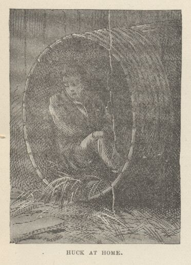 Illustrations de The Adventures of Tom Sawyer, 1876.